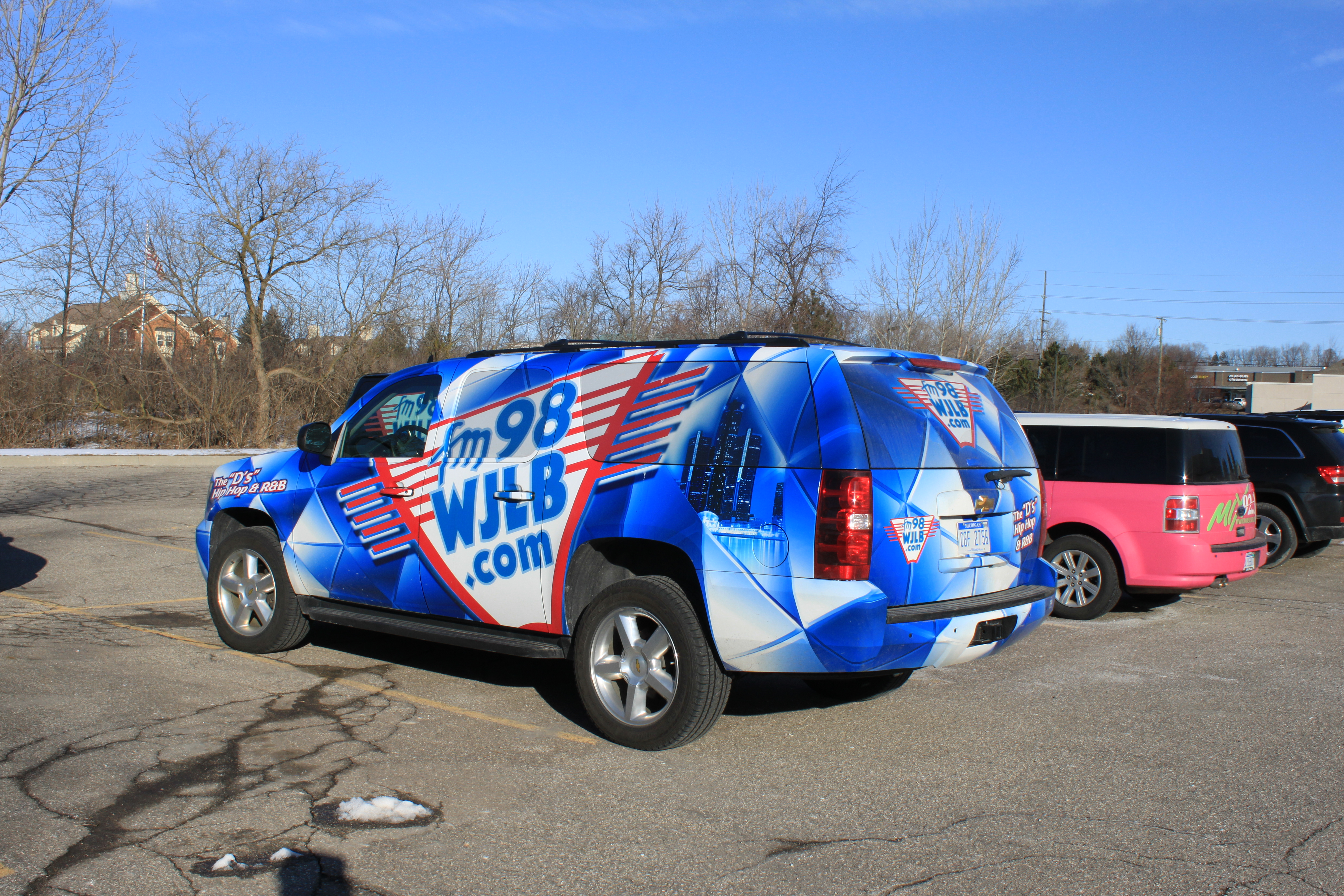 Radio station WJLB station vehicle at the Clear Channel Building, 27675 Halsted Road, Farmington Hills, Michigan.